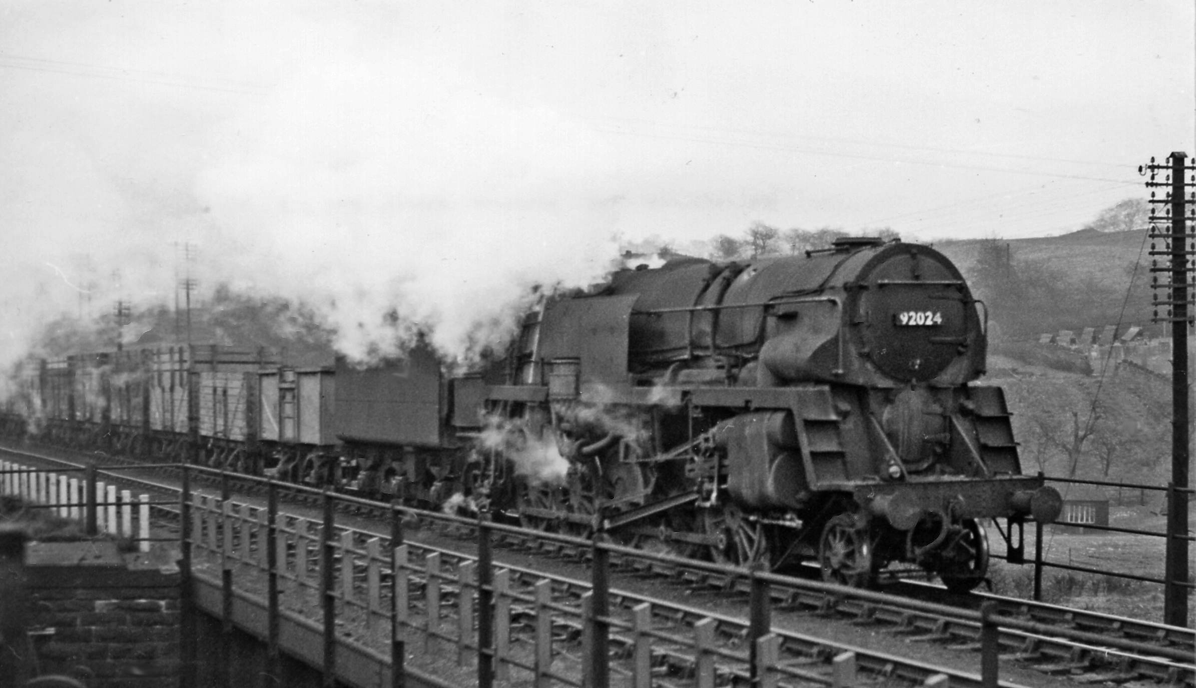 BR 2-10-0 with Franco-Crosti boiler at Chesterfield. View NE, towards Tapton Junction, Sheffield, Rotherham etc.: ex-Midland Main Lines. On one of the almost constant flow of freight and mineral trains through Chesterfield Midland, this was an unusual locomotive. No. 92024 was one of the ten BR 9F 2-10-0s built (5/55) with Franco-Crosti boilers, in which the exhaust was passed through a secondary chamber acting as a pre-heater and came out of a large orifice on the right hand side. (The conventional chimney was used only when lighting up). The arrangement outweighed any advantages and the boilers of these ten engines were changed back to normal (with the pre-heater blanked off)after about five years - on this one in 2/60, the locomotive then lasting until 11/67.